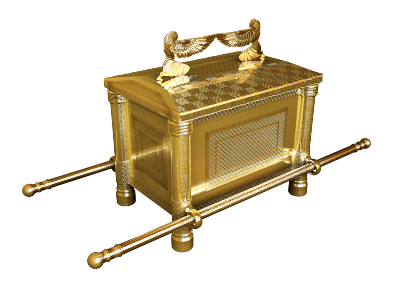 Illustration made with 3DS Max and Photoshop.